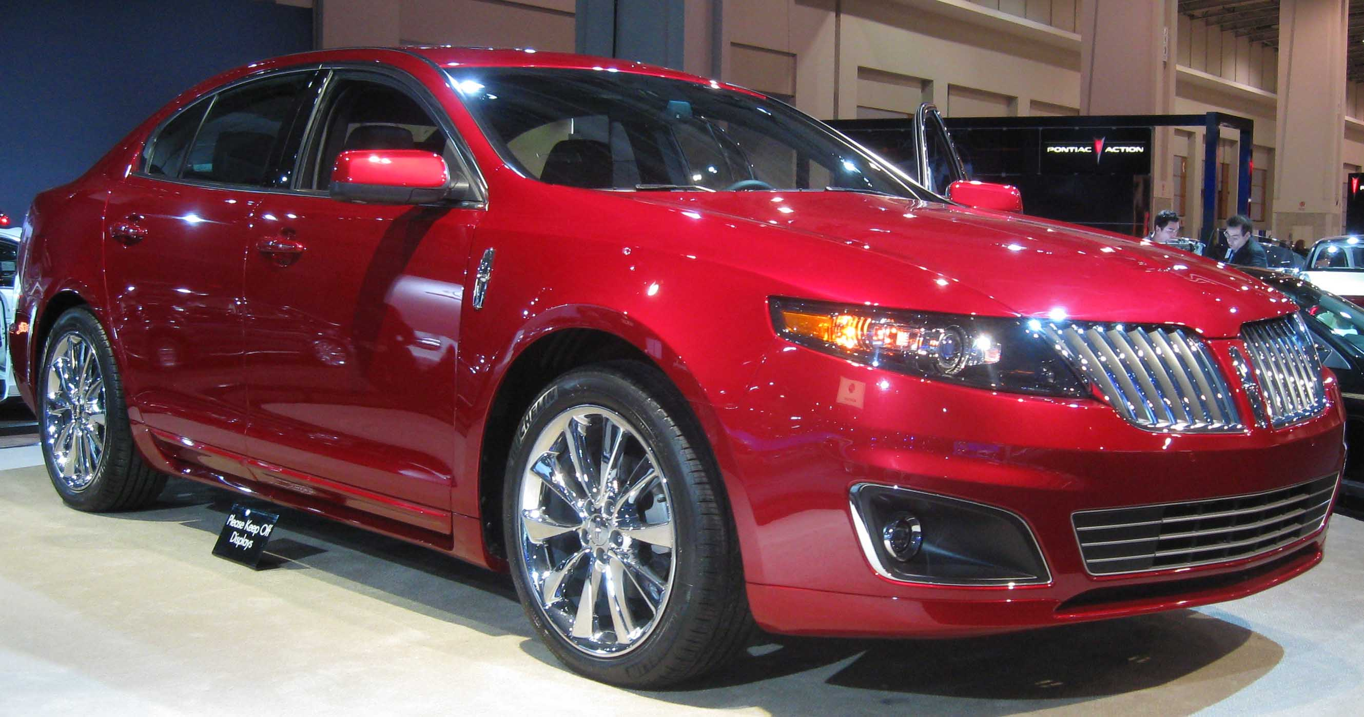 2010 Lincoln MKS photographed at the 2009 Washington DC Auto Show.